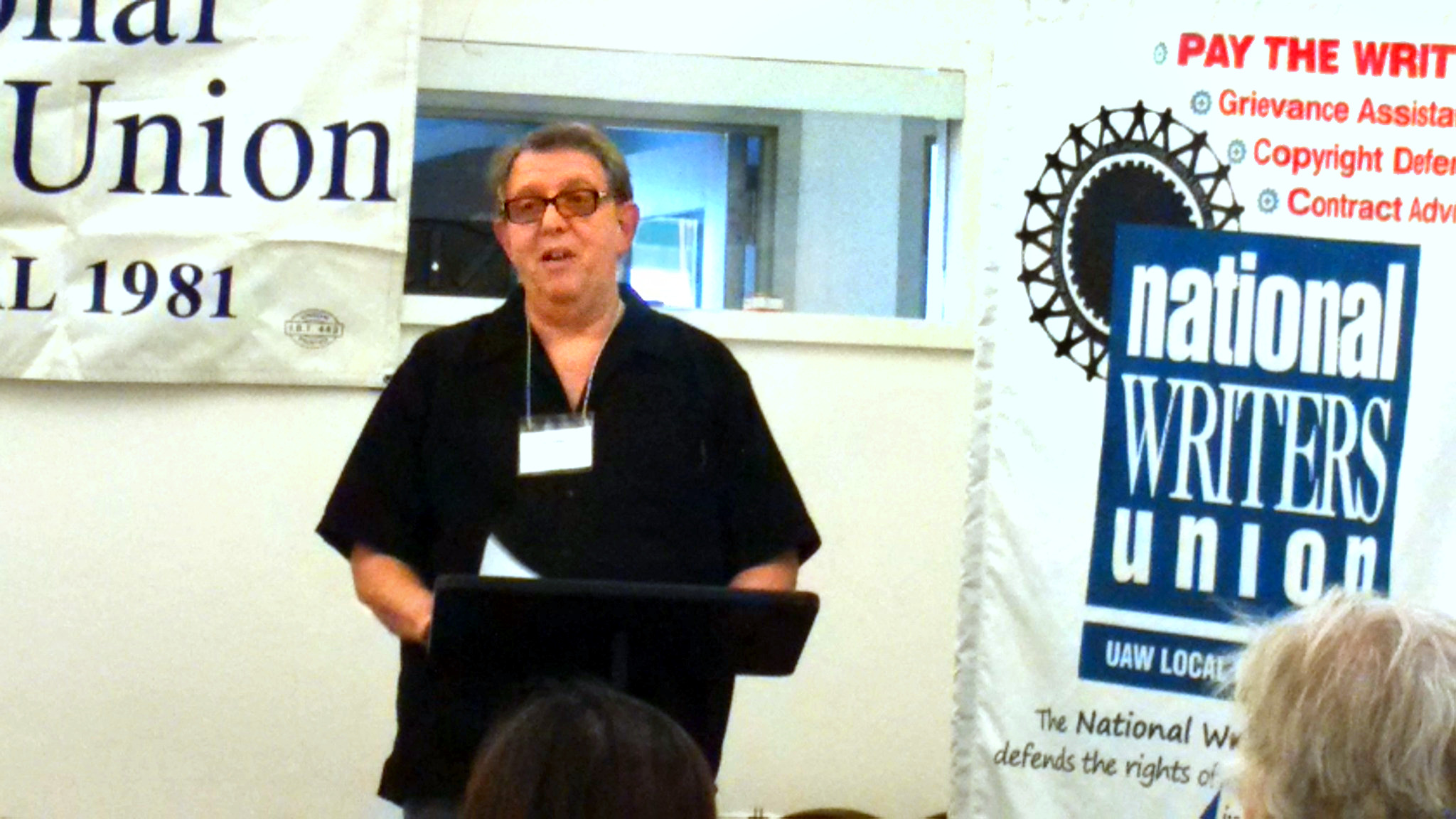 President Larry Goldbetter addresses a meeting of the National Writers Union delegate assembly on August 7, 2015. New York City, New York. Photo by Ted Prezelski